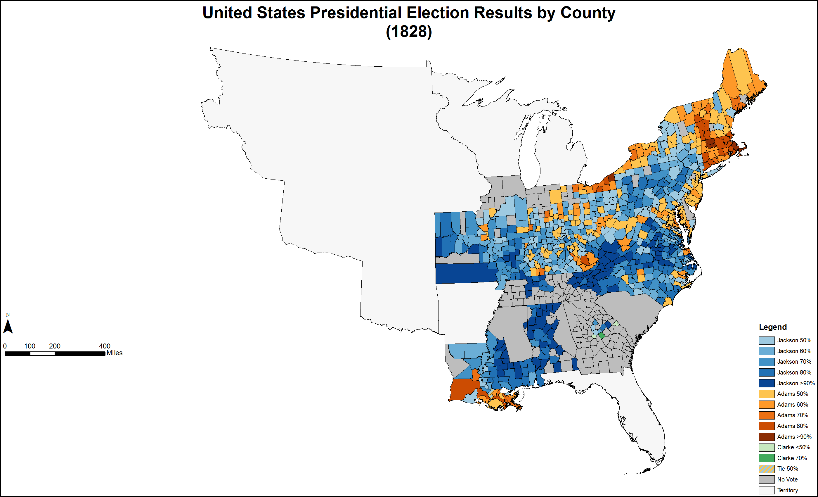 Presidential election results by county (1828). Colors based on Colorbrewer 2.0.